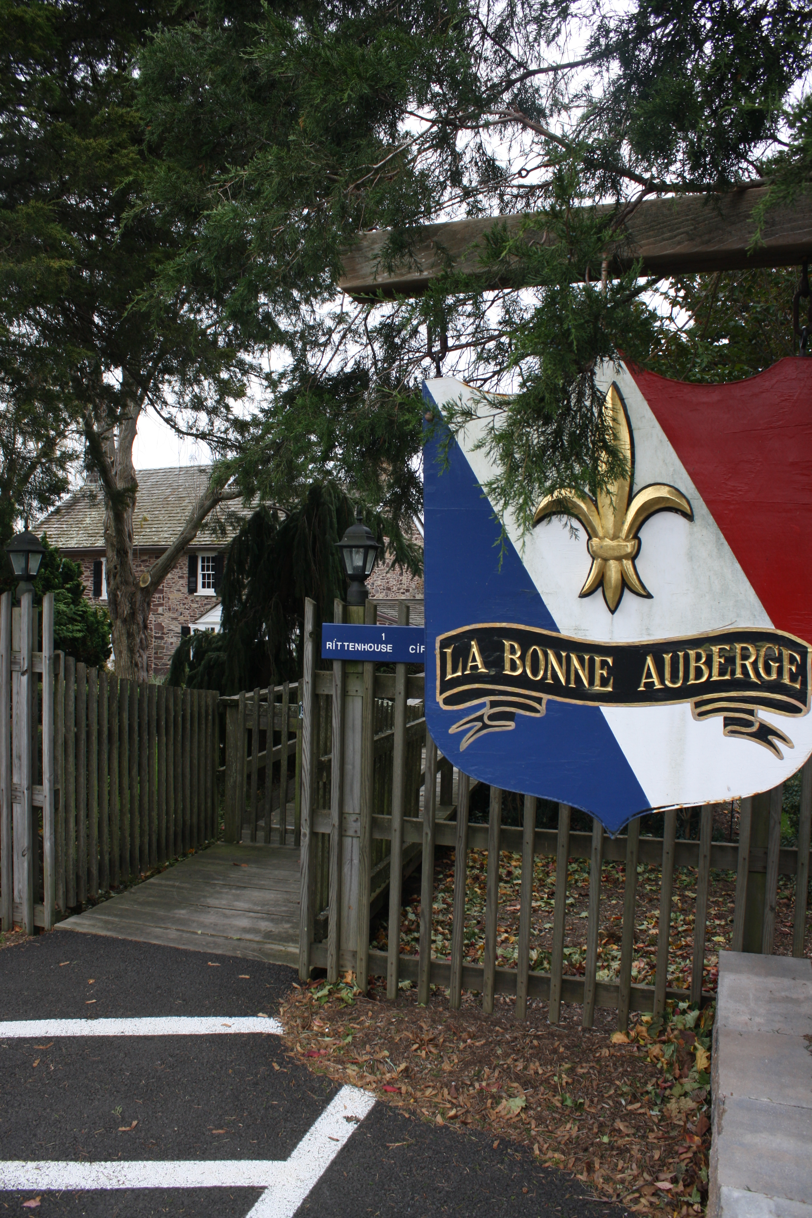 Joshua Ely House (La Bonne Auberge), a historic home located at New Hope, Bucks County, Pennsylvania. Object location40° 21′ 21″ N, 74° 57′ 30″ W